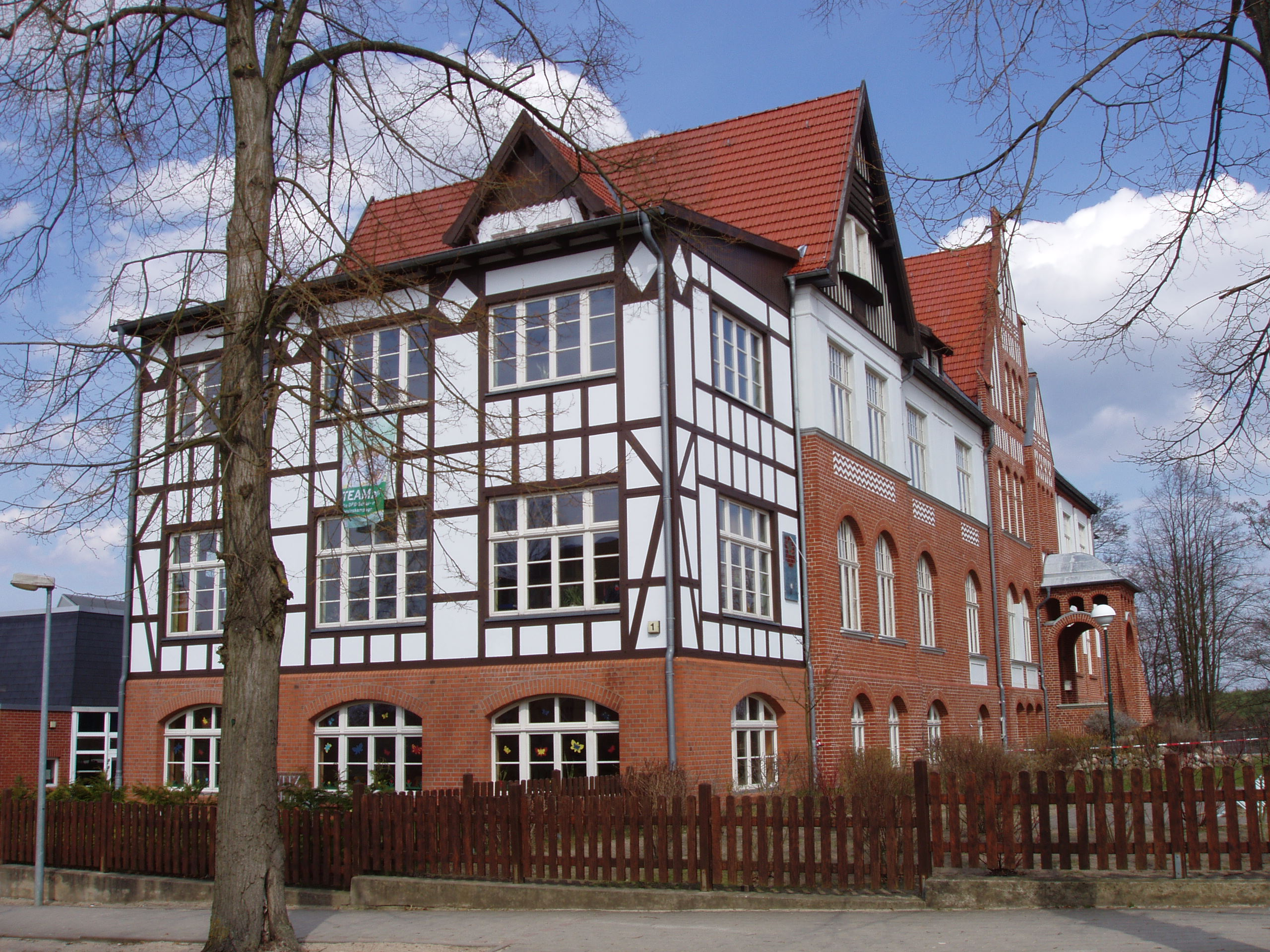 Pannwitz elementary school in Lychen, Germany